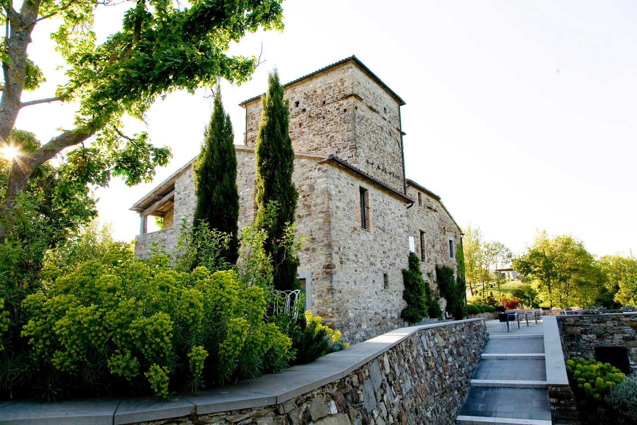 Picture of path to Moravola